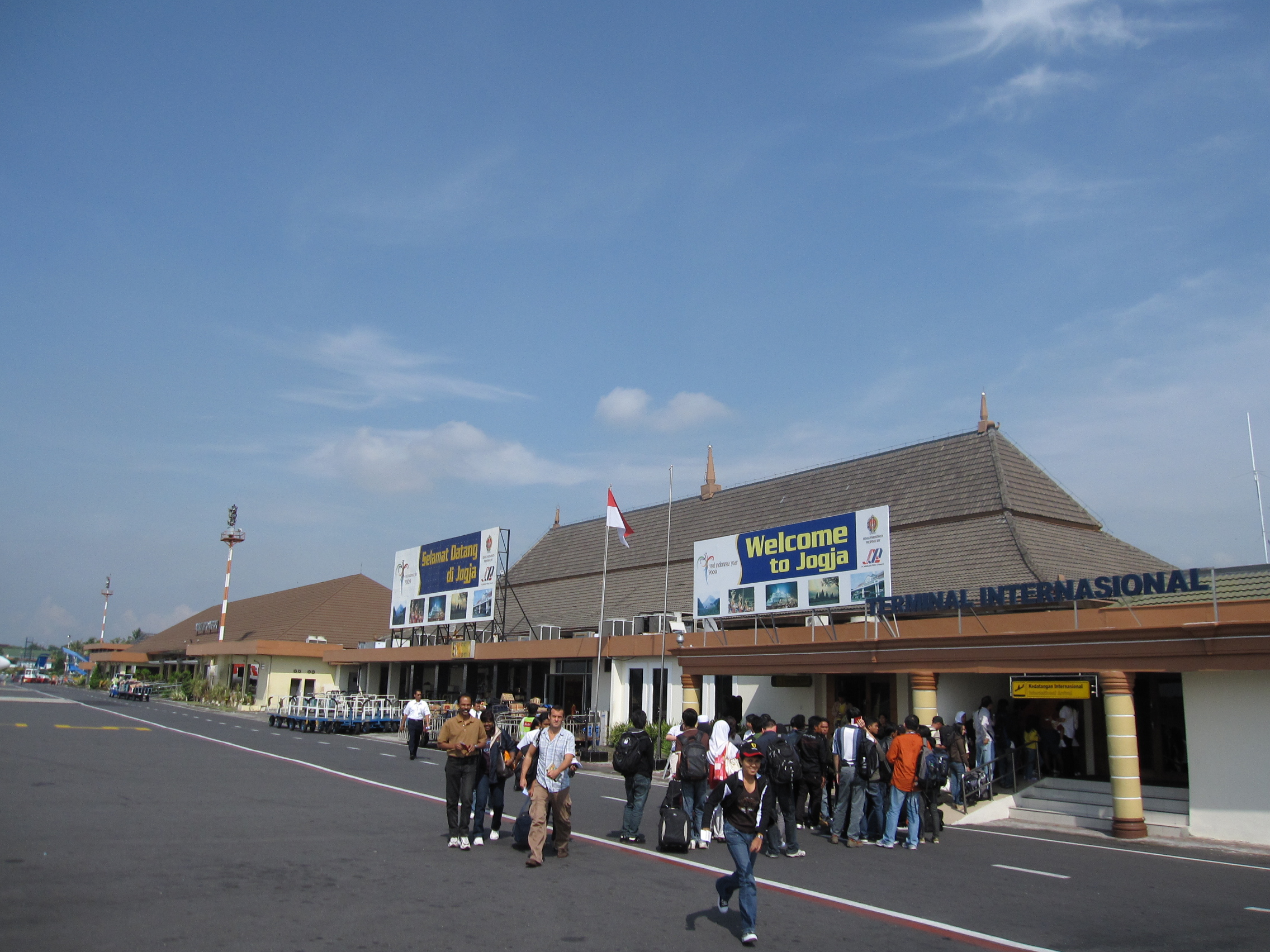 Adisutjipto International Airport